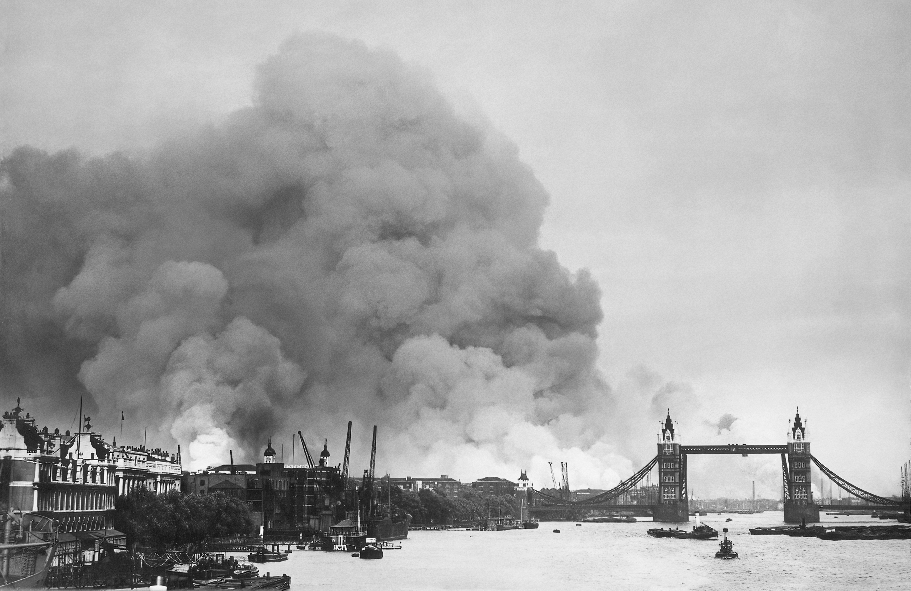 View along the River Thames in London towards smoke rising from the London docks after an air raid during the Blitz.